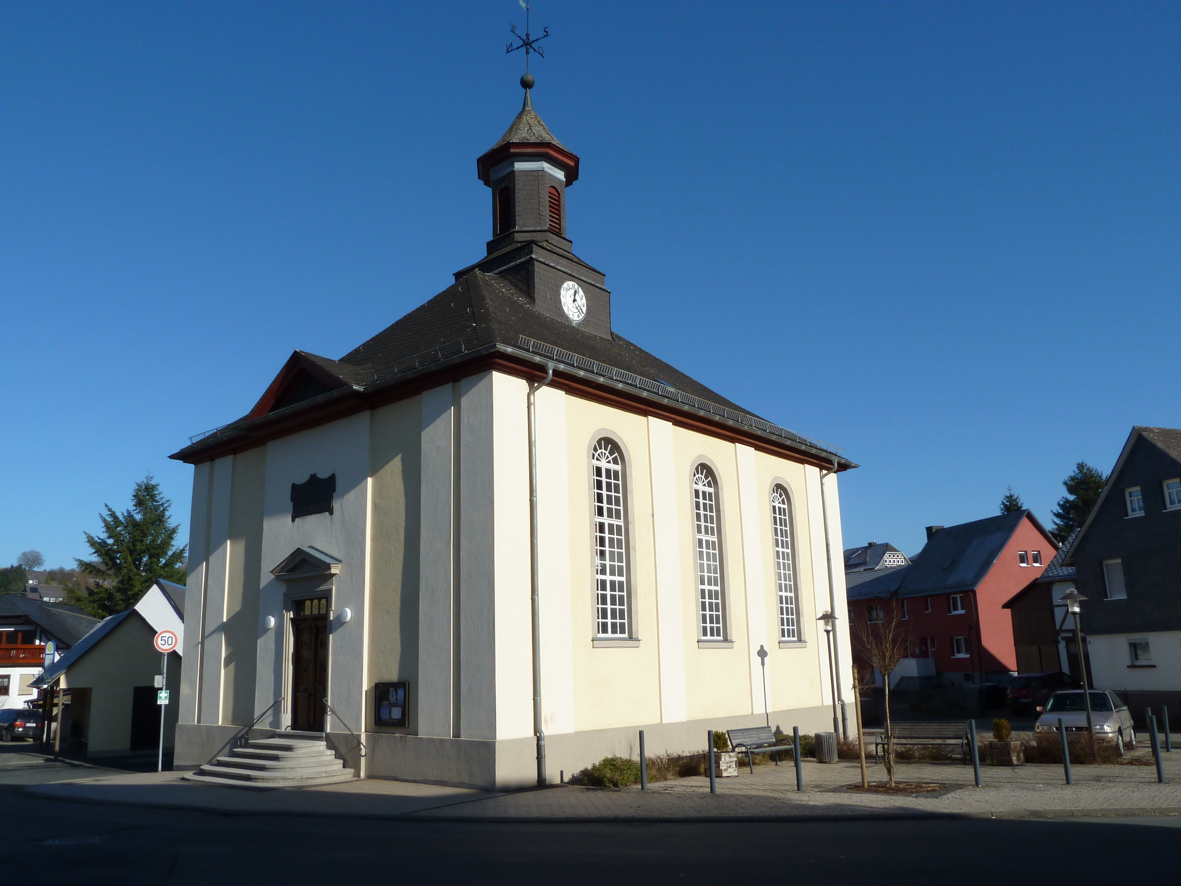 Church of Eiershausen, Germany